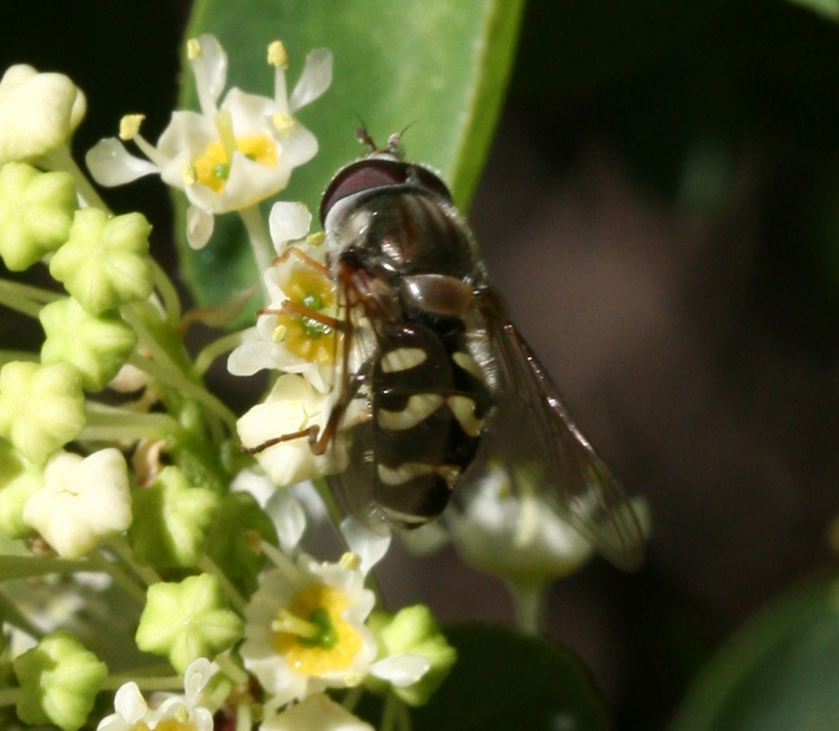 Wuksachi, Sequoia National Park, California, USA Ref